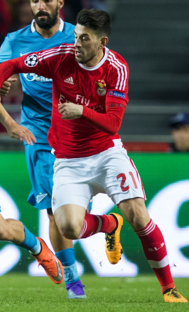 Luís Miguel Afonso Fernandes